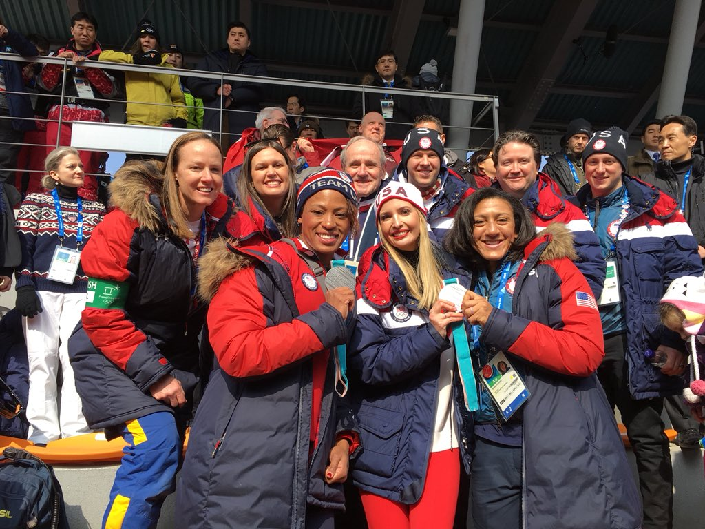 "Had a blast with @IvankaTrump @lagibbs84 @eamslider24 @taylormorris91 @MMortensenUSA @SenatorRisch and Shauna Rohbock cheering on the #TeamUSA Men’s bobsled team. Truly amazing athletes!"